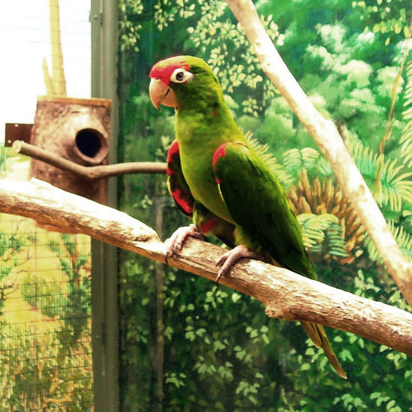 Scarlet-fronted Parakeet, also called Scarlet-fronted Conure at Jurong Birdpark, Singapore.